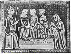 Aaron's rod, from the 1901-1906 Jewish Encyclopedia. Category:Jewish Encyclopedia images